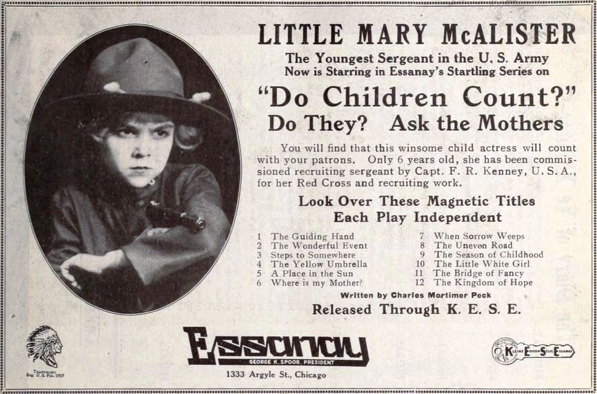 Ad for the American film Do Children Count? (1917) with child actress Mary McAllister, on page 5 of the June 30, 1917 Exhibitors Herald.